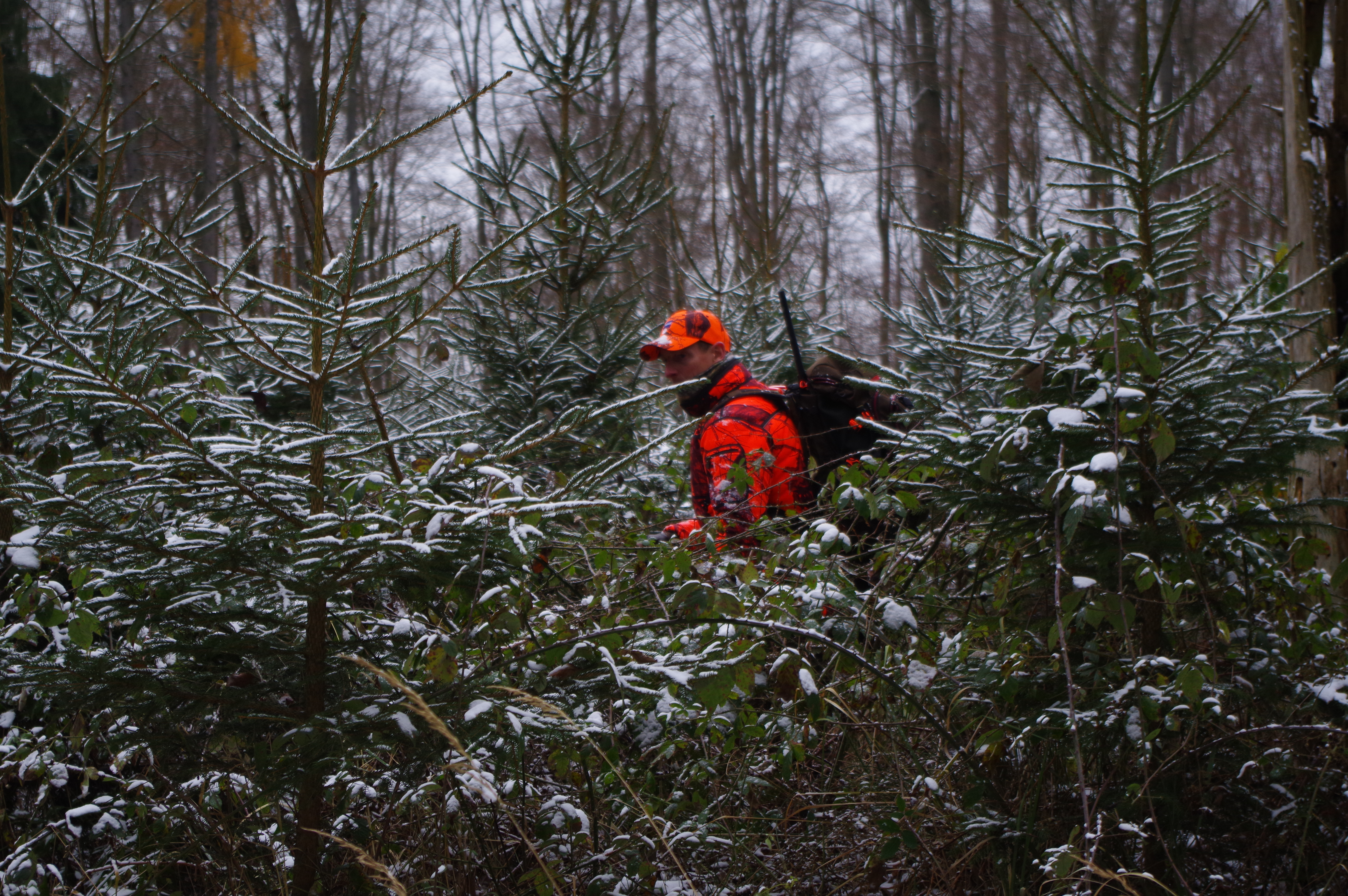 Paul Childerley on the way to his assigned shooting stand during a driven hunt on the Solms-Laubach forest estate (Forstbetrieb Solms-Laubach) near Laubach Castle in Germany.